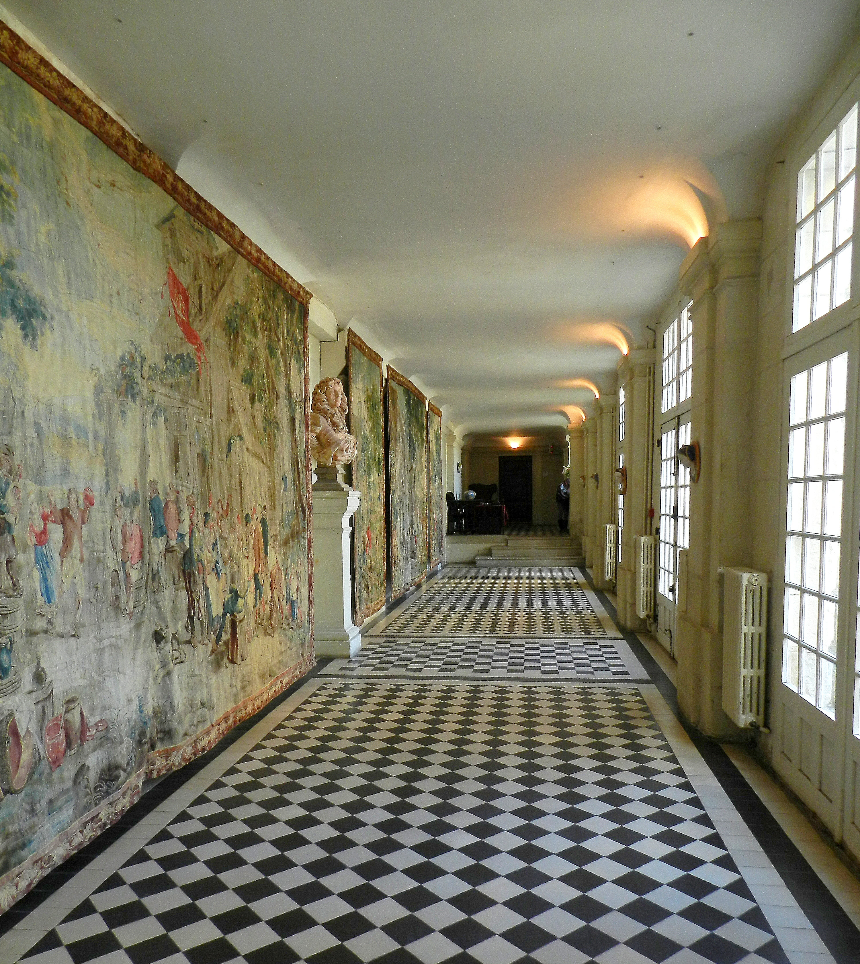 Interior, Ussé Castle, Loire, France